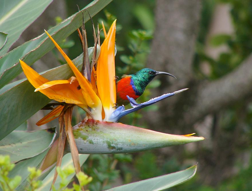 Greater Double-collared Sunbird (Cinnyris afer).